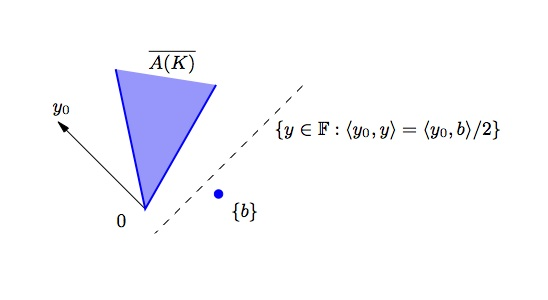 Illustration of the generalized Farkas lemma